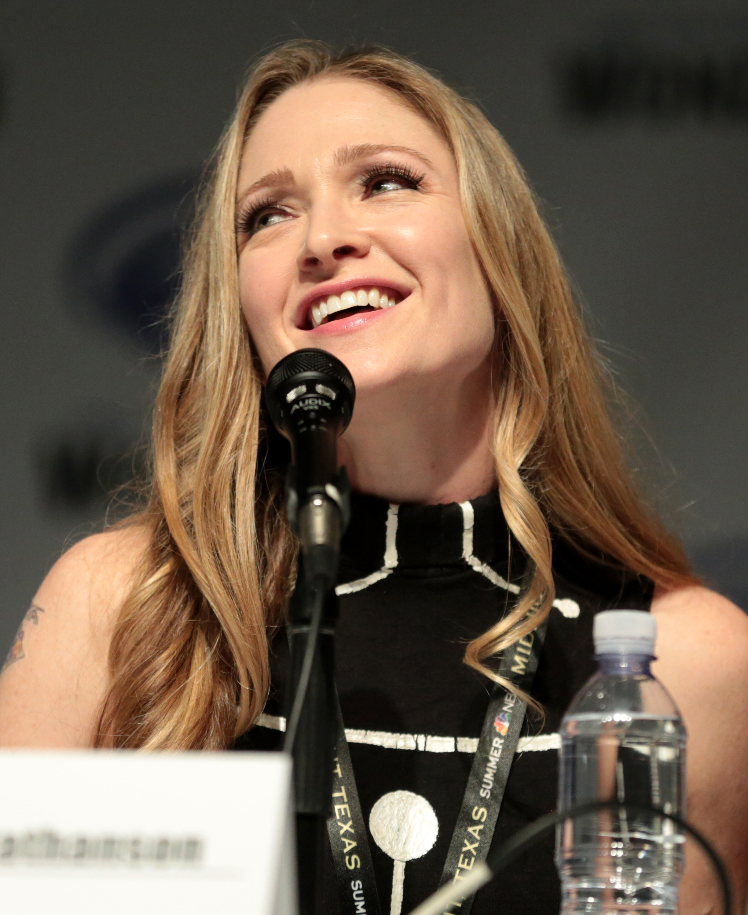 Julie Nathanson speaking at the 2017 WonderCon in Anaheim, California.